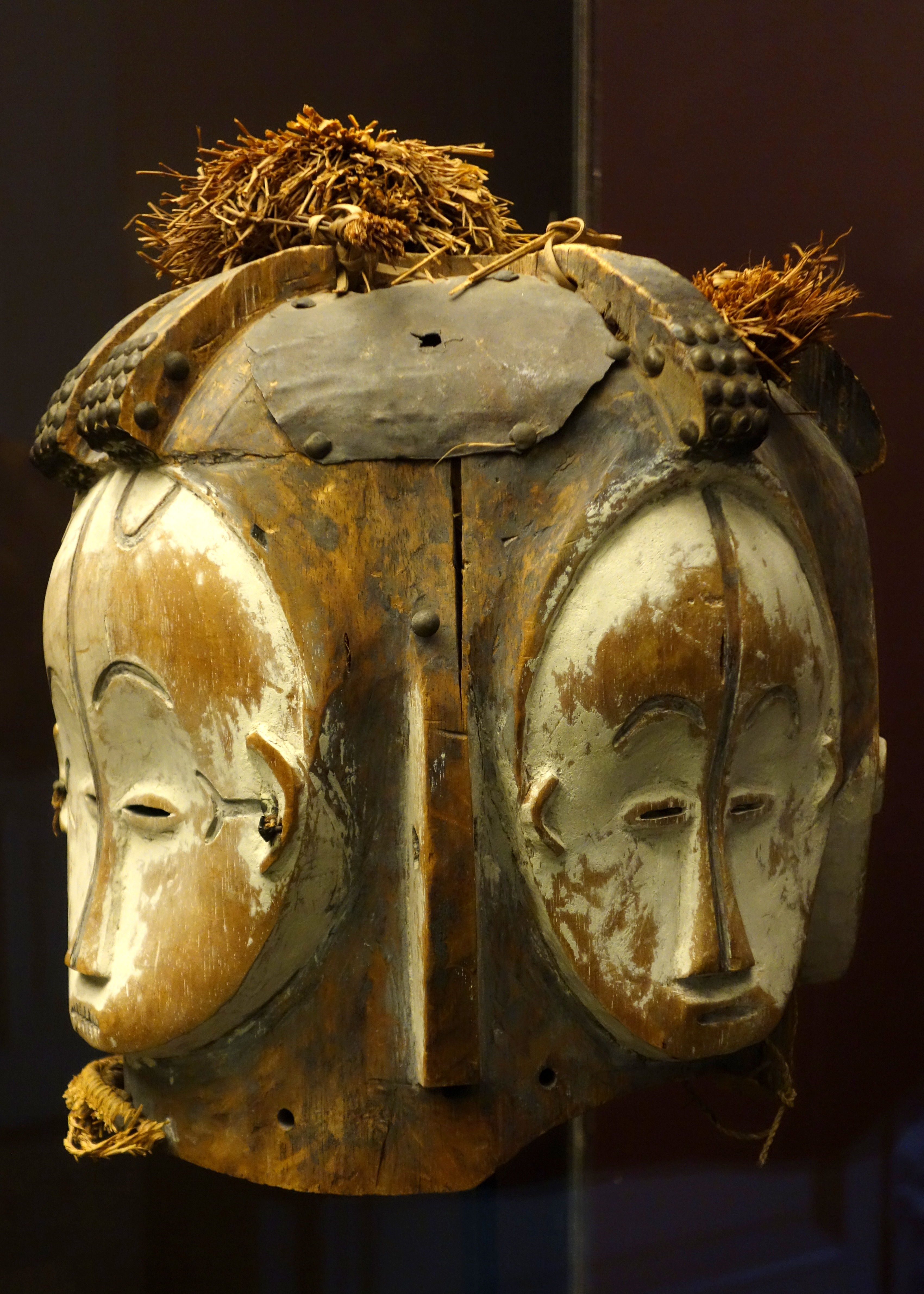 Exhibit in the Royal Museum for Central Africa, Tervuren, Belgium. This object is old enough so that it is in the public domain.